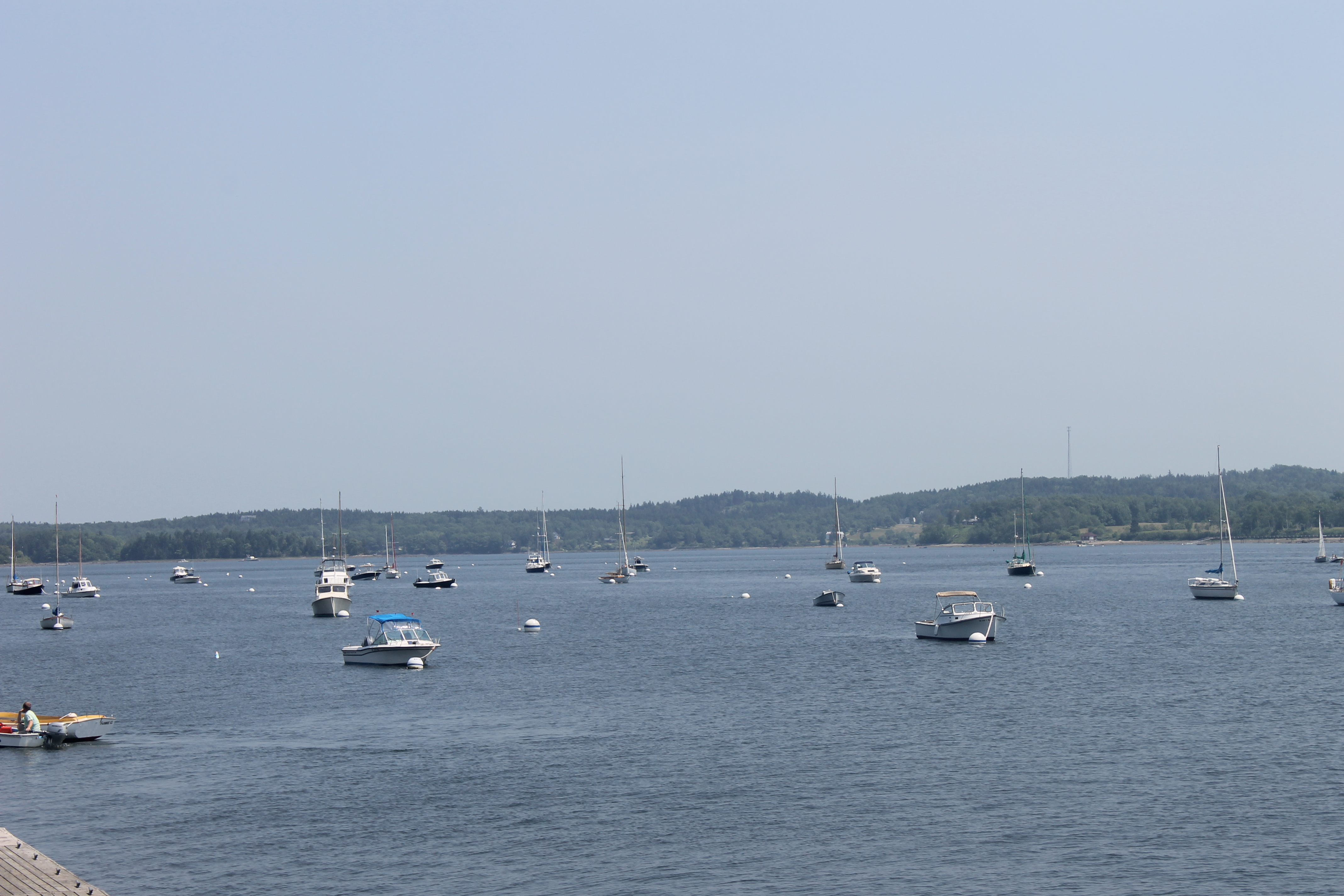 I took photo of waterfront in Castine, ME, with a Canon camera.